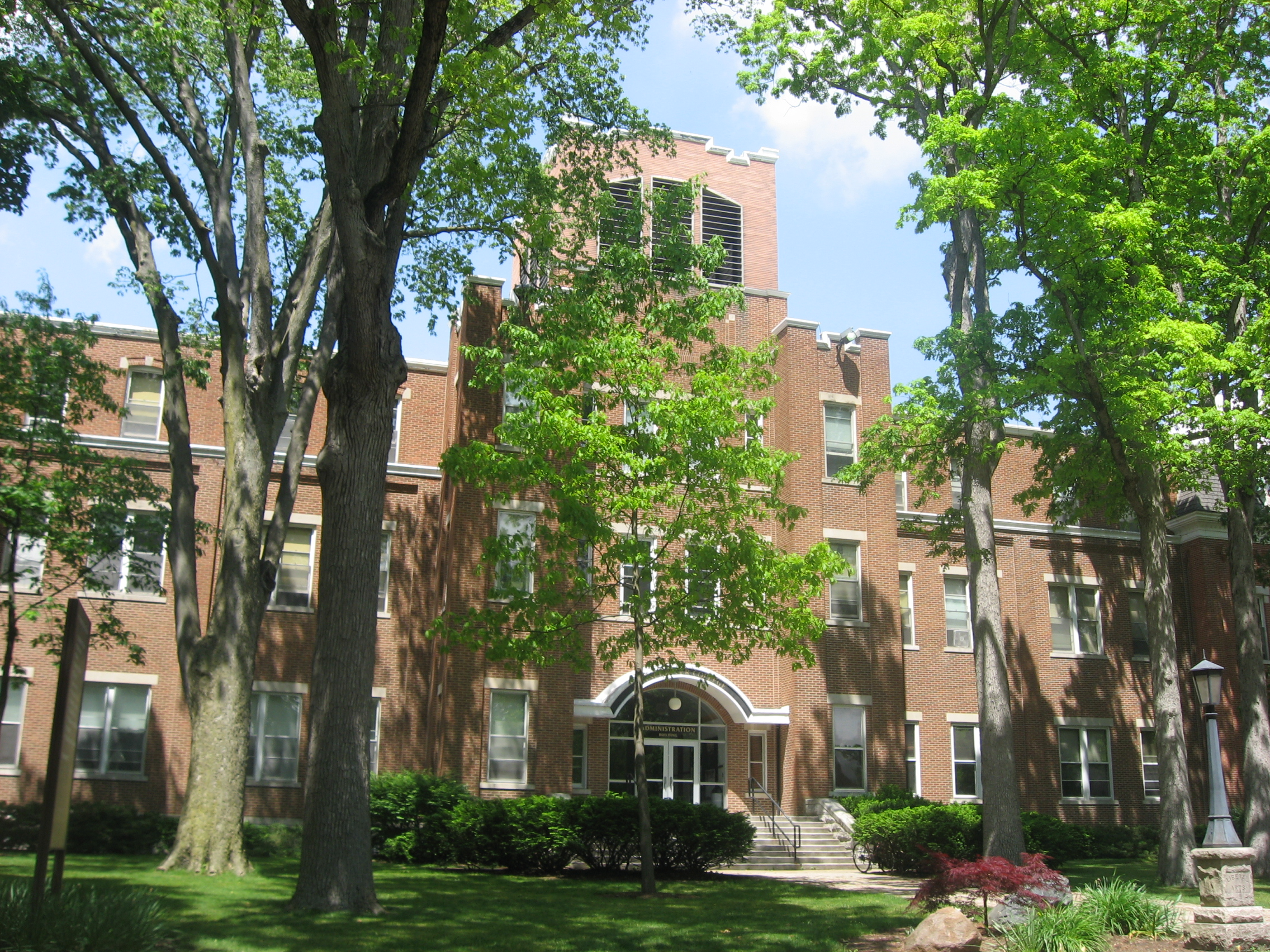 Front of the central Administrative Building on the campus of Manchester College, located along College Avenue in North Manchester, Indiana, United States. Built in 1921, the Administration Building is part of the Manchester College Historic District, a historic district that is listed on the National Register of Historic Places.